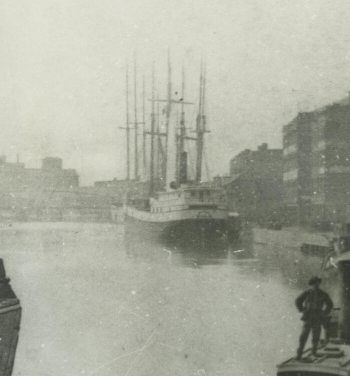 The freighter Selah Chamberlain prior to her sinking